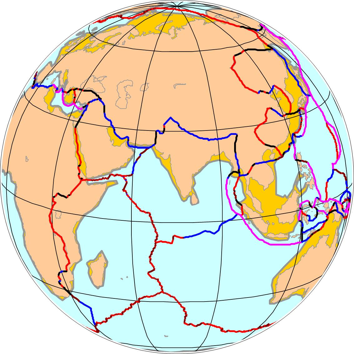 Indian tectonic plate. Orthogonal projection (as seen from deep space).